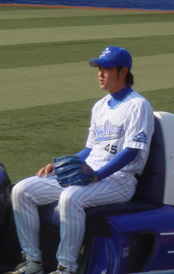 Michiomi Yoshihara, pitcher of the Yokohama BayStars, at Yokohama Stadium.